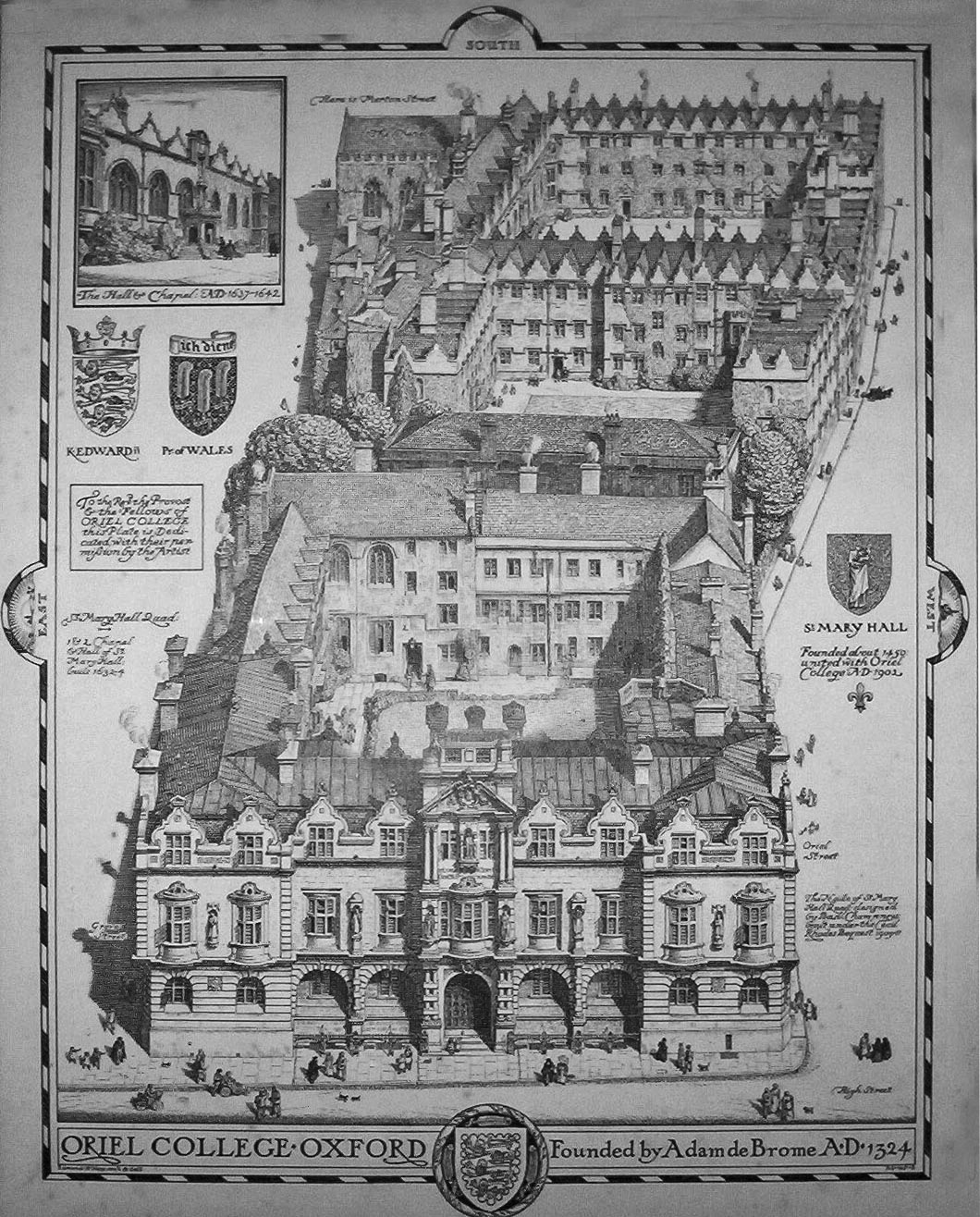 Photograph of a photogravure of Oriel College, Oxford by Emery Walker after Edmund Hort New. Published by Edmund Hort New: 17 Worcester Place Oxford; A.D. 1919.